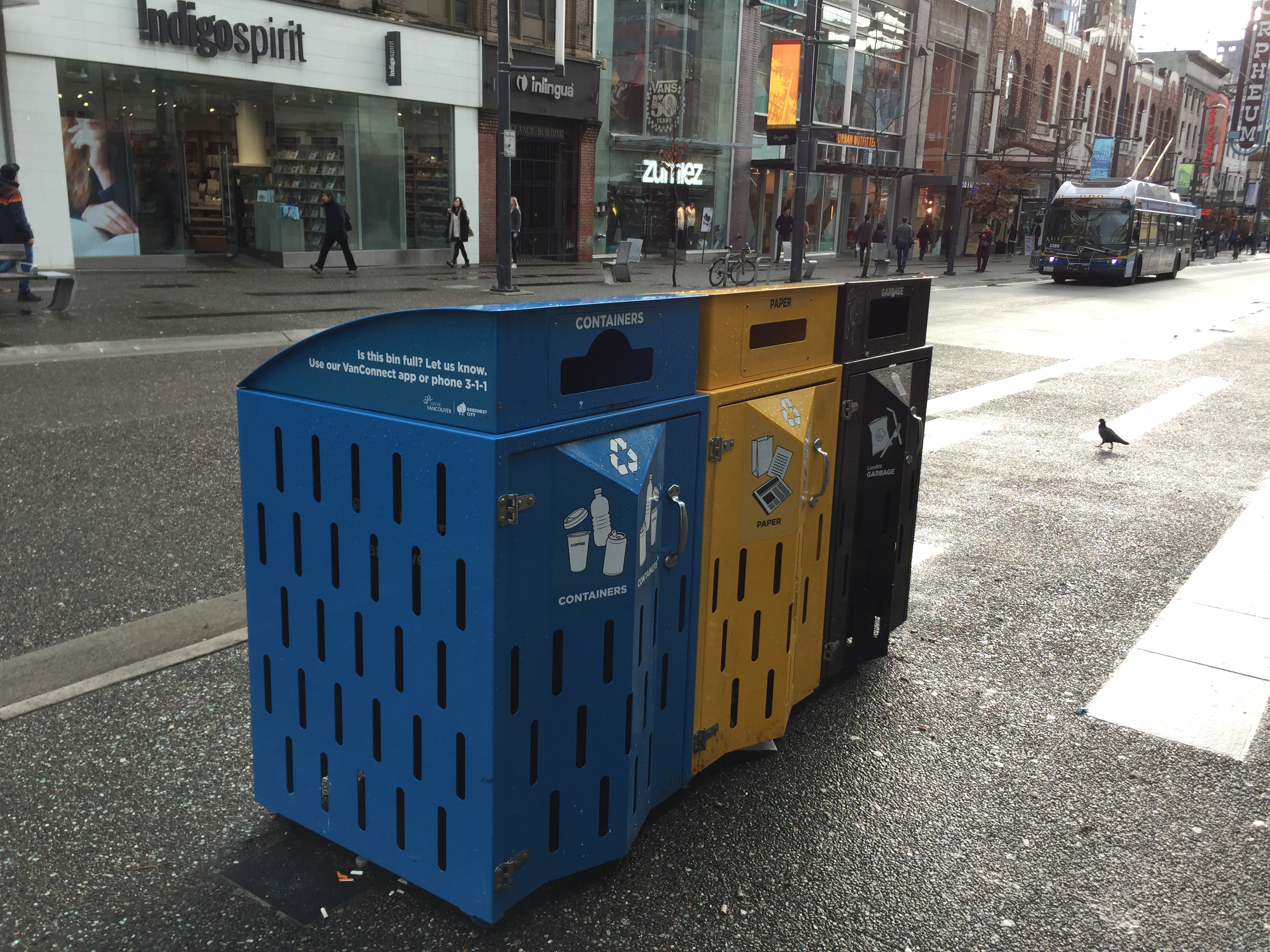 Container recycling, paper recycling and garbage bin in Vancouver